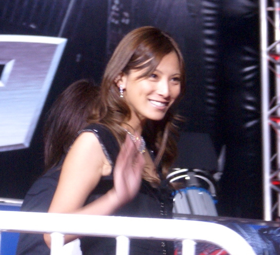 Japanese actress Ai Kato at the premiere of Spiderman 3 in Roppongi Hills, Tokyo.